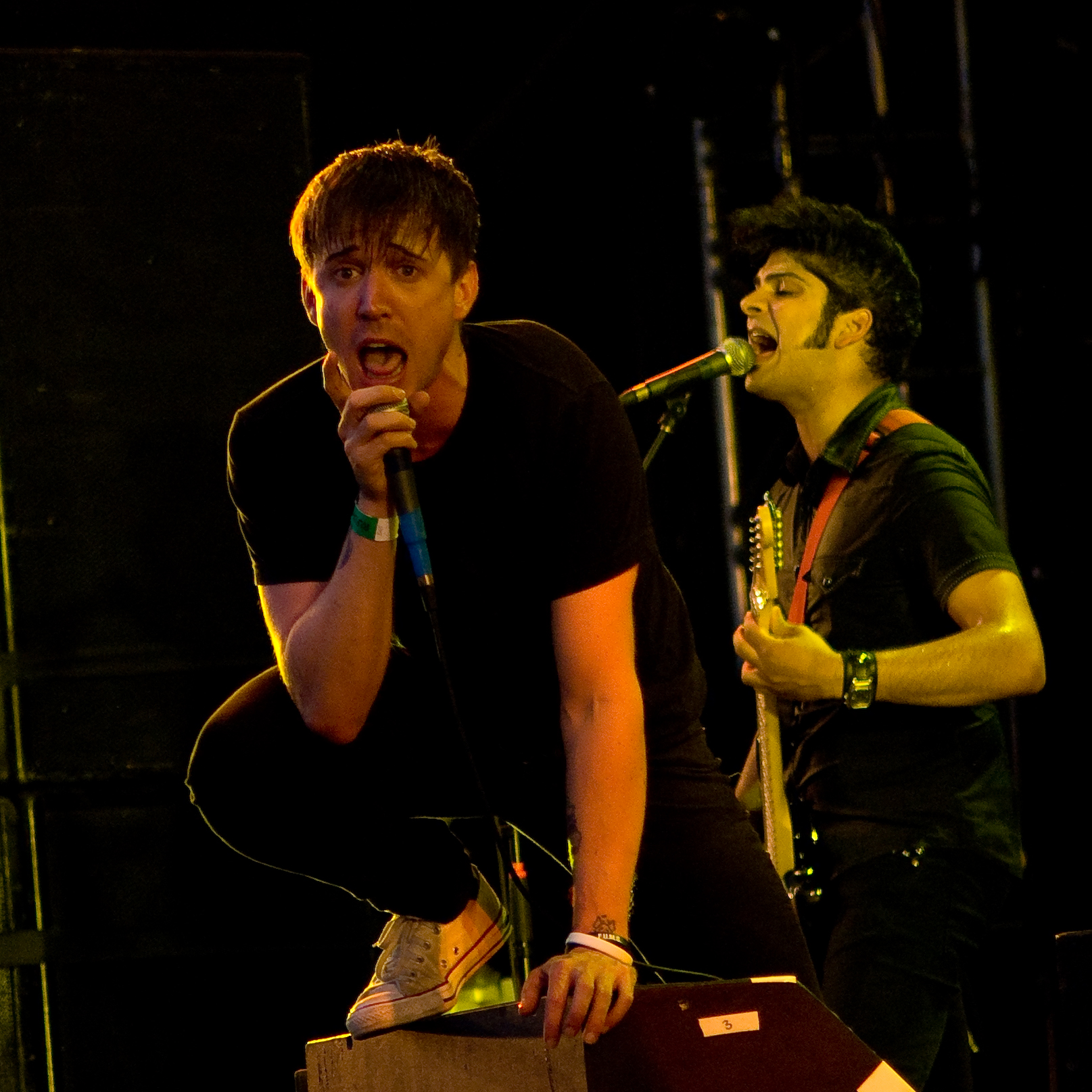 Billy Talent at Ruisrock